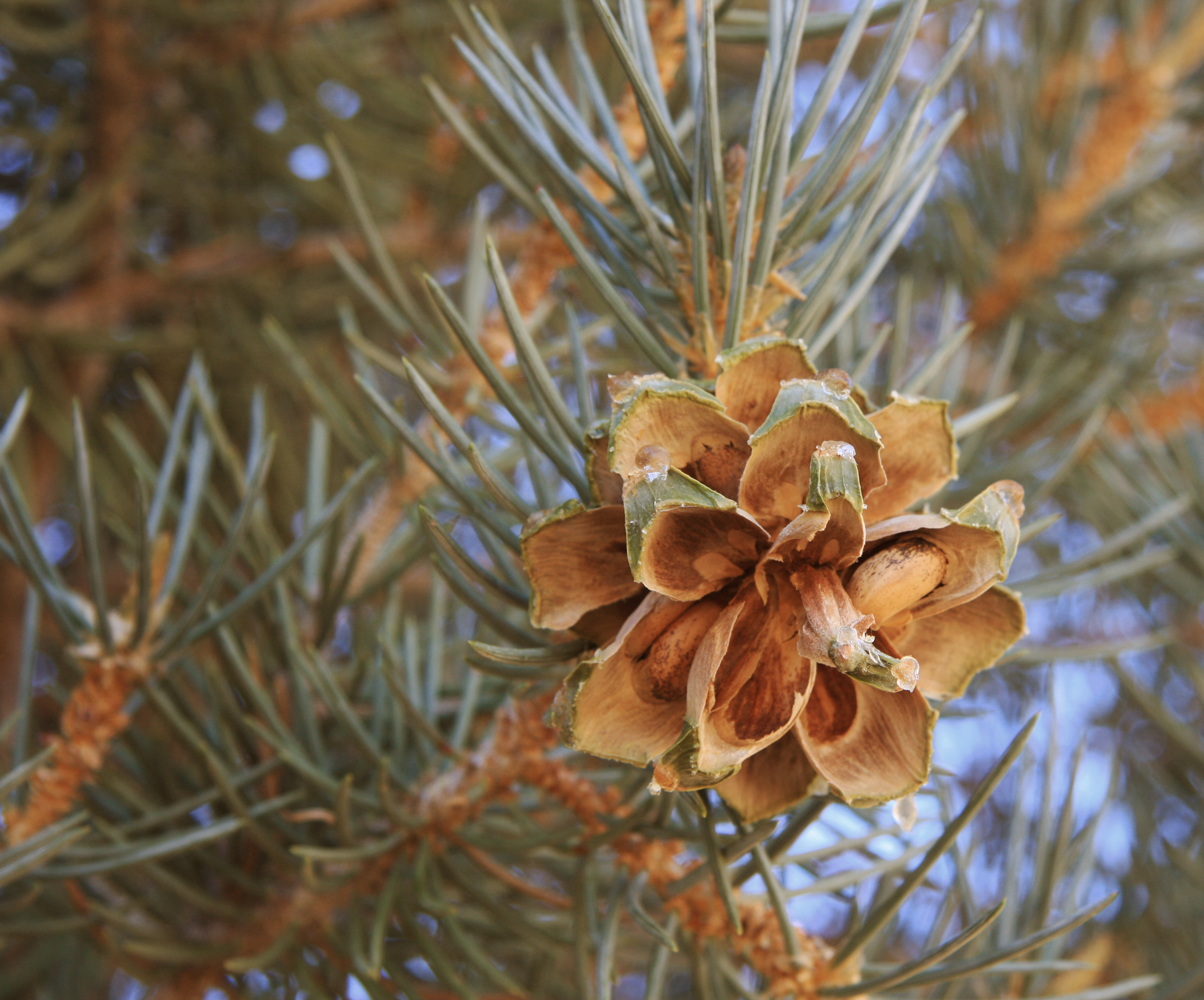 Pinyon pine (Pinus monophylla), open cone on tree with light-colored, empty pine nuts left in place after jay and squirrel foraging of the good, dark-brown ones. At 2,120 m (6,960 ft) in Swall Meadows, Mono County, California.